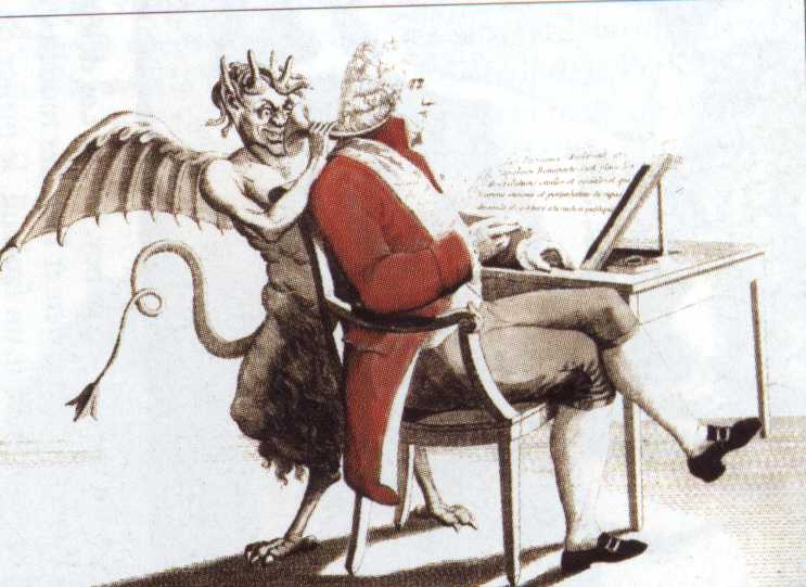 Caricature of French stateman Charles-Maurice Talleyrand-Perigord by an unknown artist. First published in 1815 under the title "Monsieur Tout-á-tous" ("Gentlemen [of a kind] among one another").